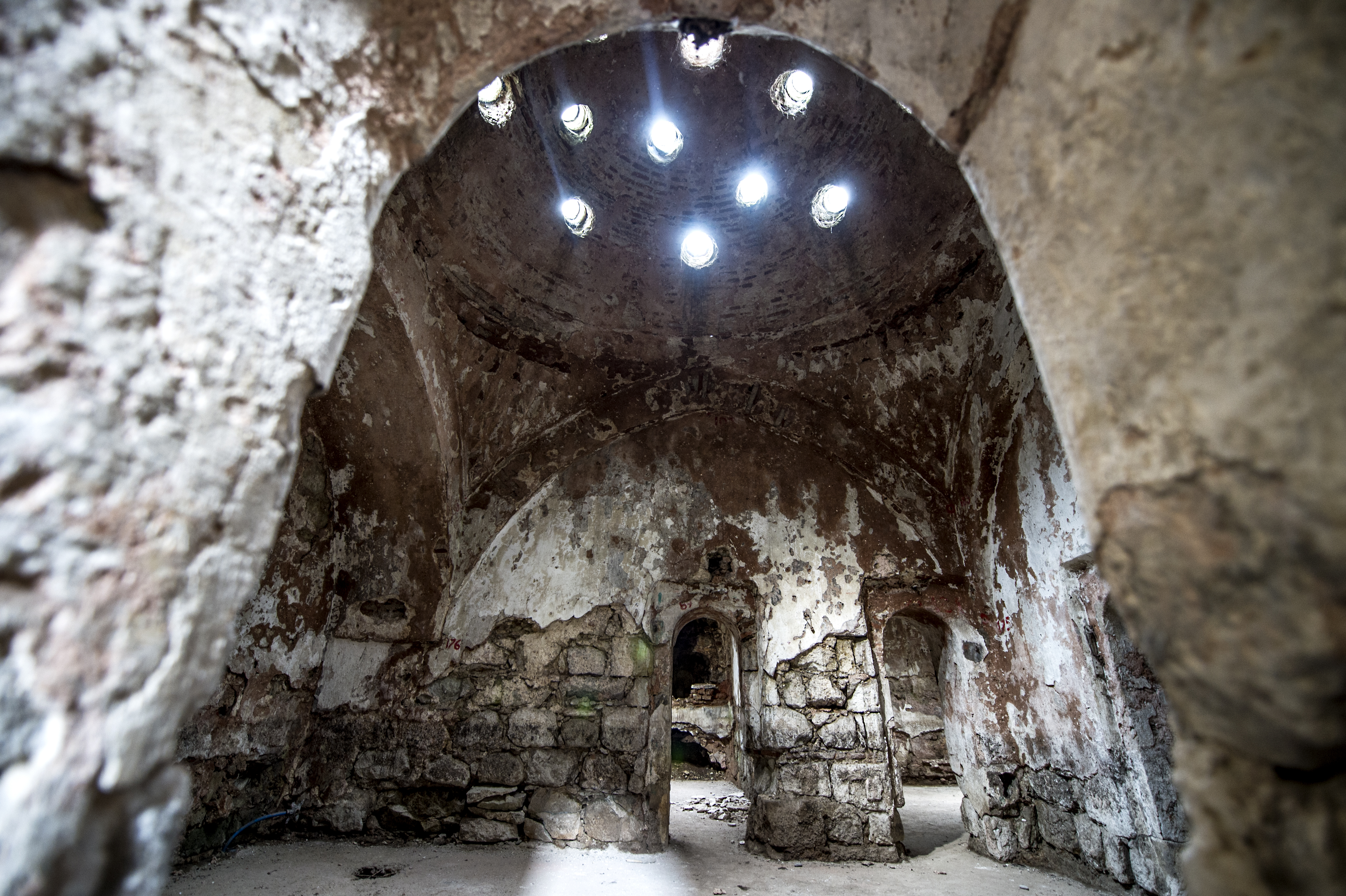 Hamam of VushtrriaShqip: Hamami i Vushtrrisë